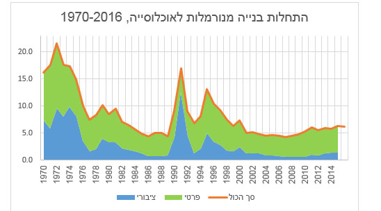 money